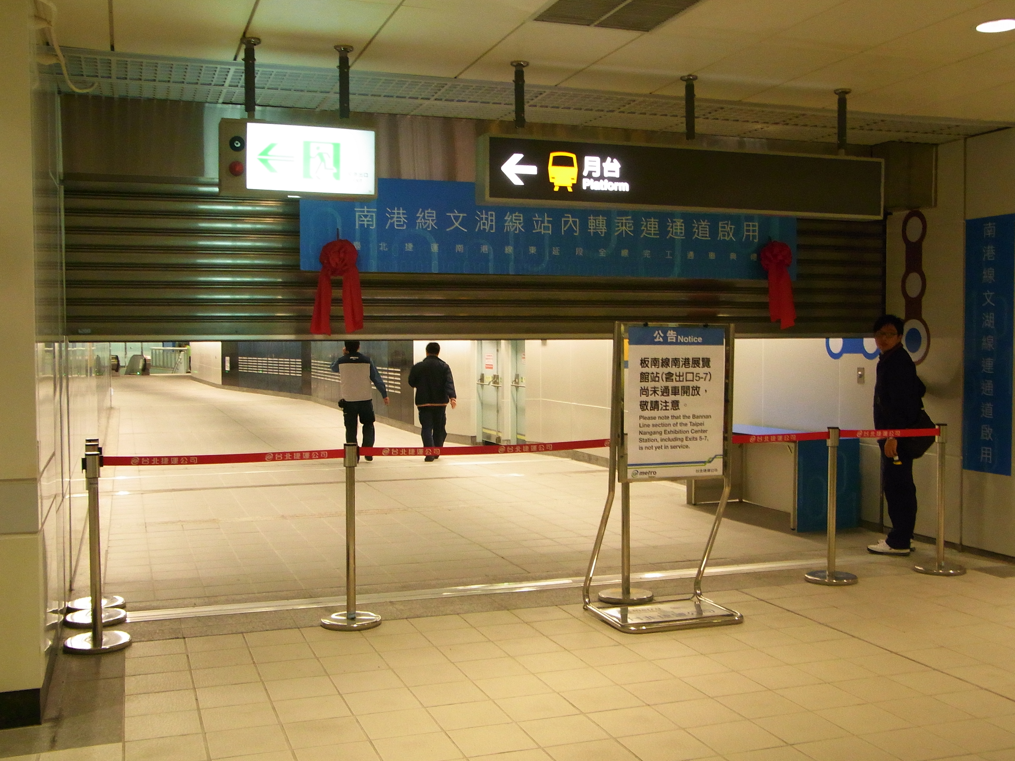 Underground passage connecting Neihu Line and Nangang Line in Taipei Nangang Exhibition Center Metro Station (two days before opening for revenue service).